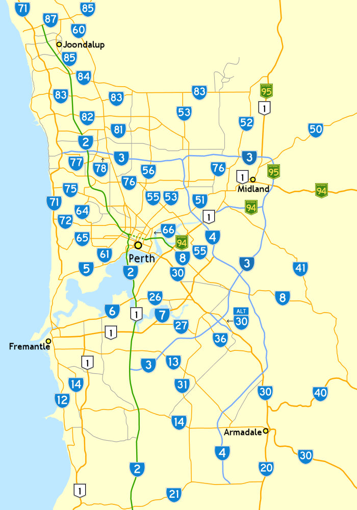 Map of Perth's road route network (freeways in green, limited access highways in blue, other road routes in yellow)